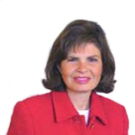 María Pía Guzmán Mena, política chilena.